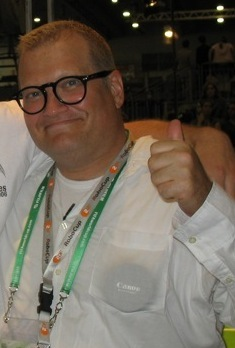 Drew Carey. Location: Germany.